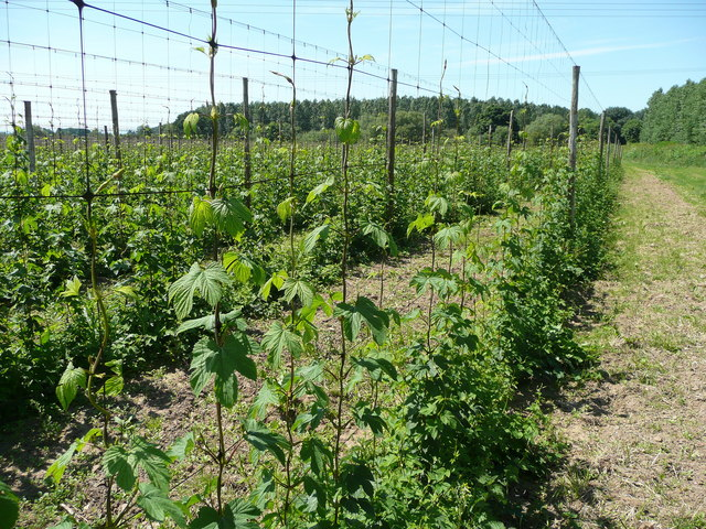 Hops growing fast In June sunshine to the south of the A438 at Five Bridges.